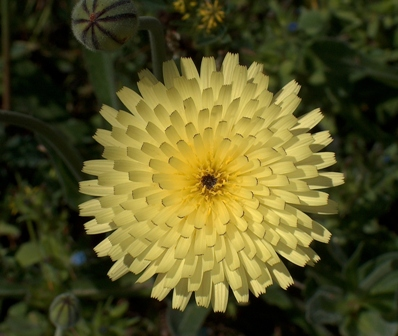 Flower of Urospermum_dalechampii